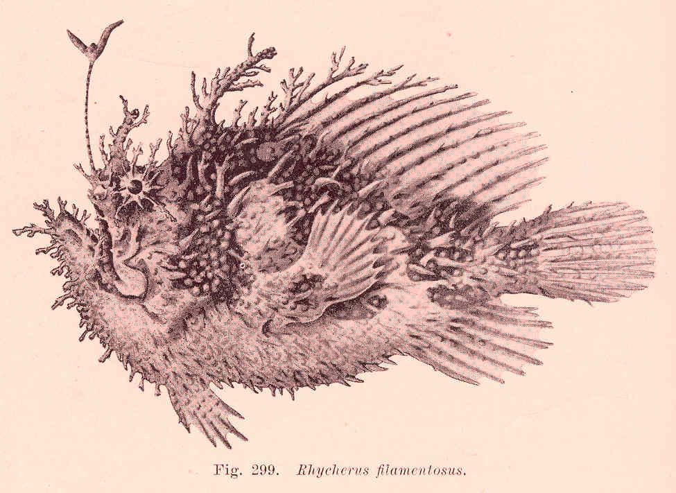 Rhycherus filamentosus Subject: Antennariidae, Anglerfishes, Rhycherus Tag: Fish